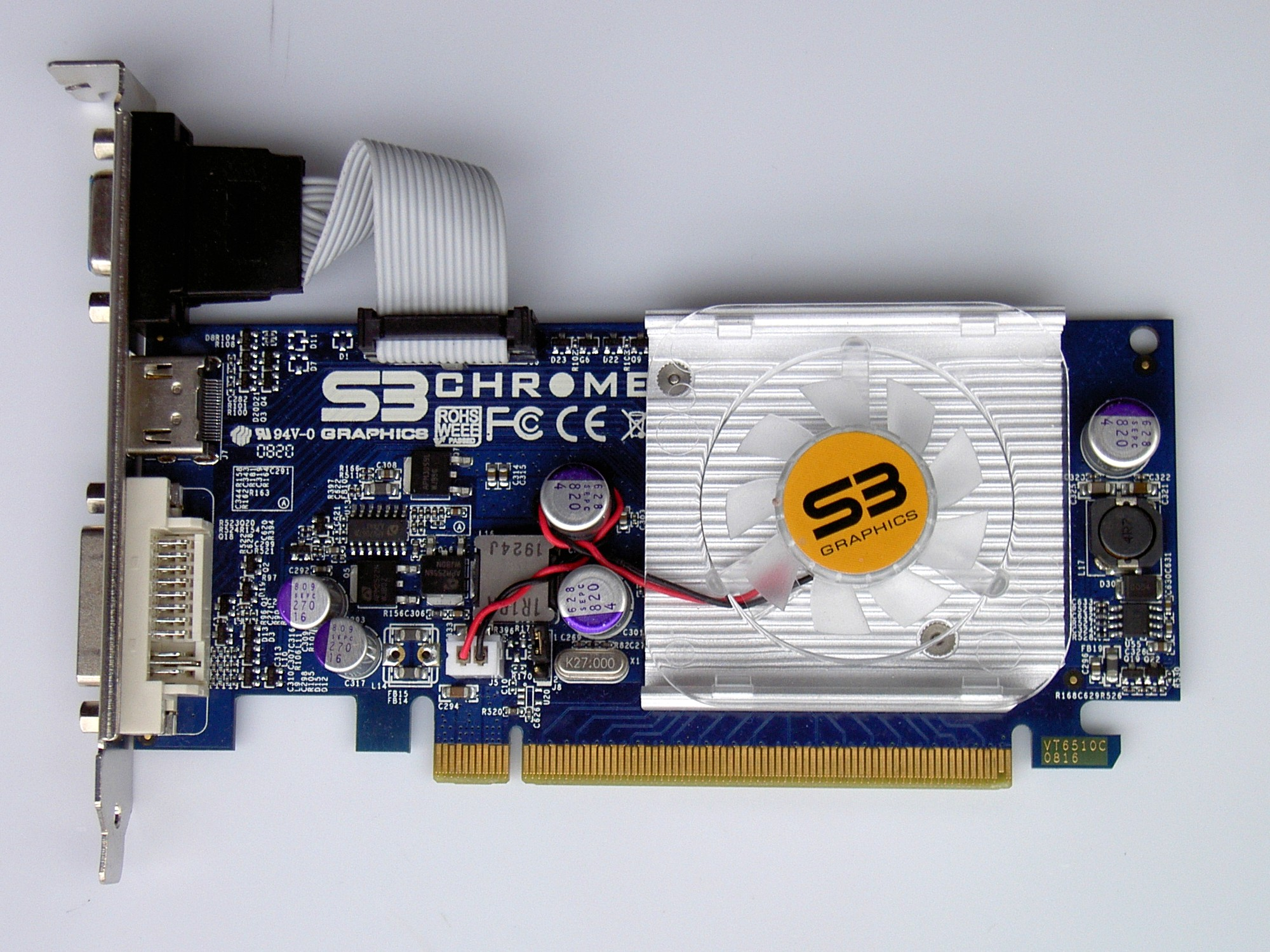 S3Graphics Chrome440GTX 256MB PCI-E2.0 Graphics card